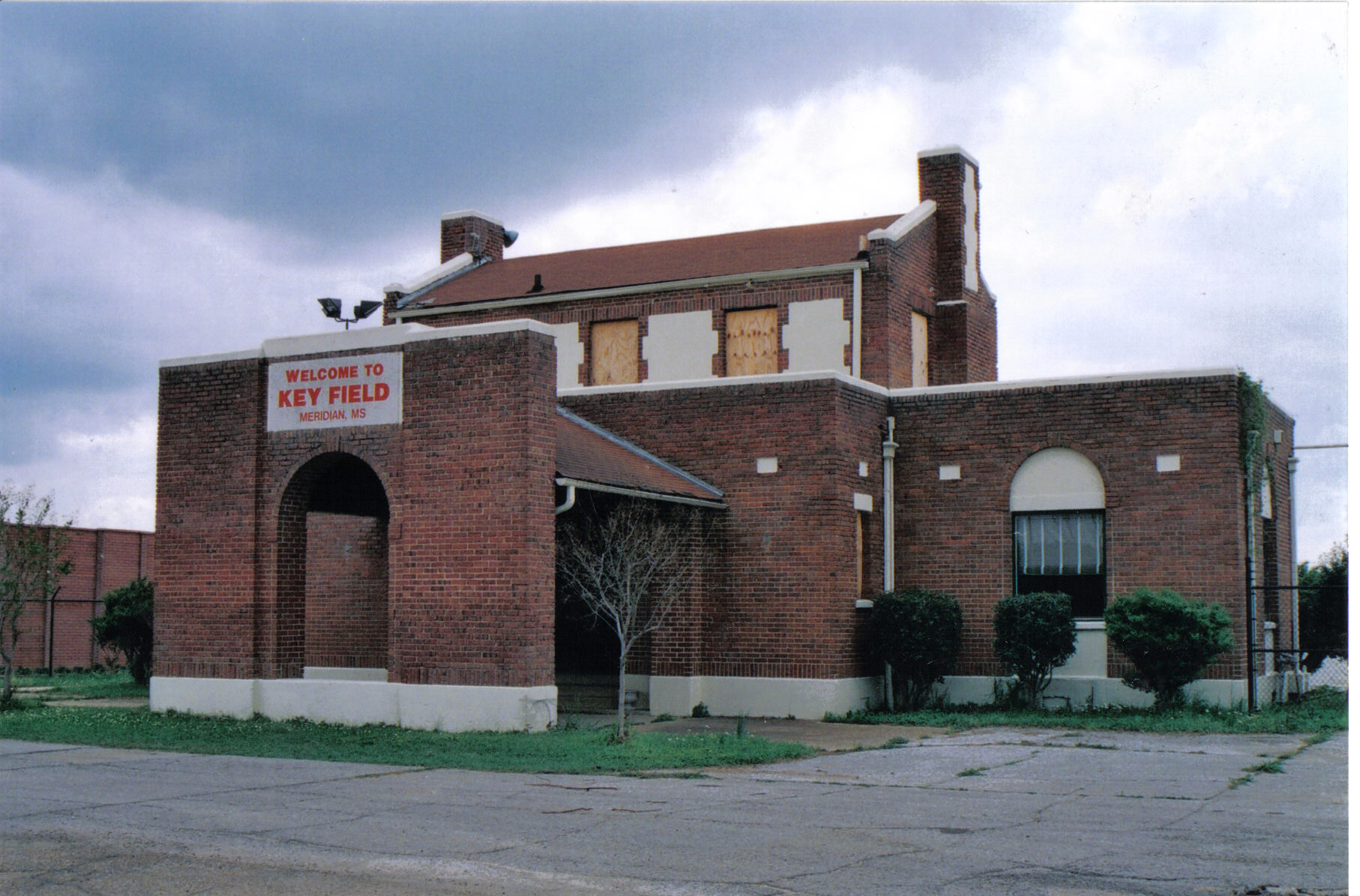 The Terminal Building at Key Field in Meridian, Mississippi. The building, along with the Hangar and Powerhouse, is listed on the National Register of Historic Places.